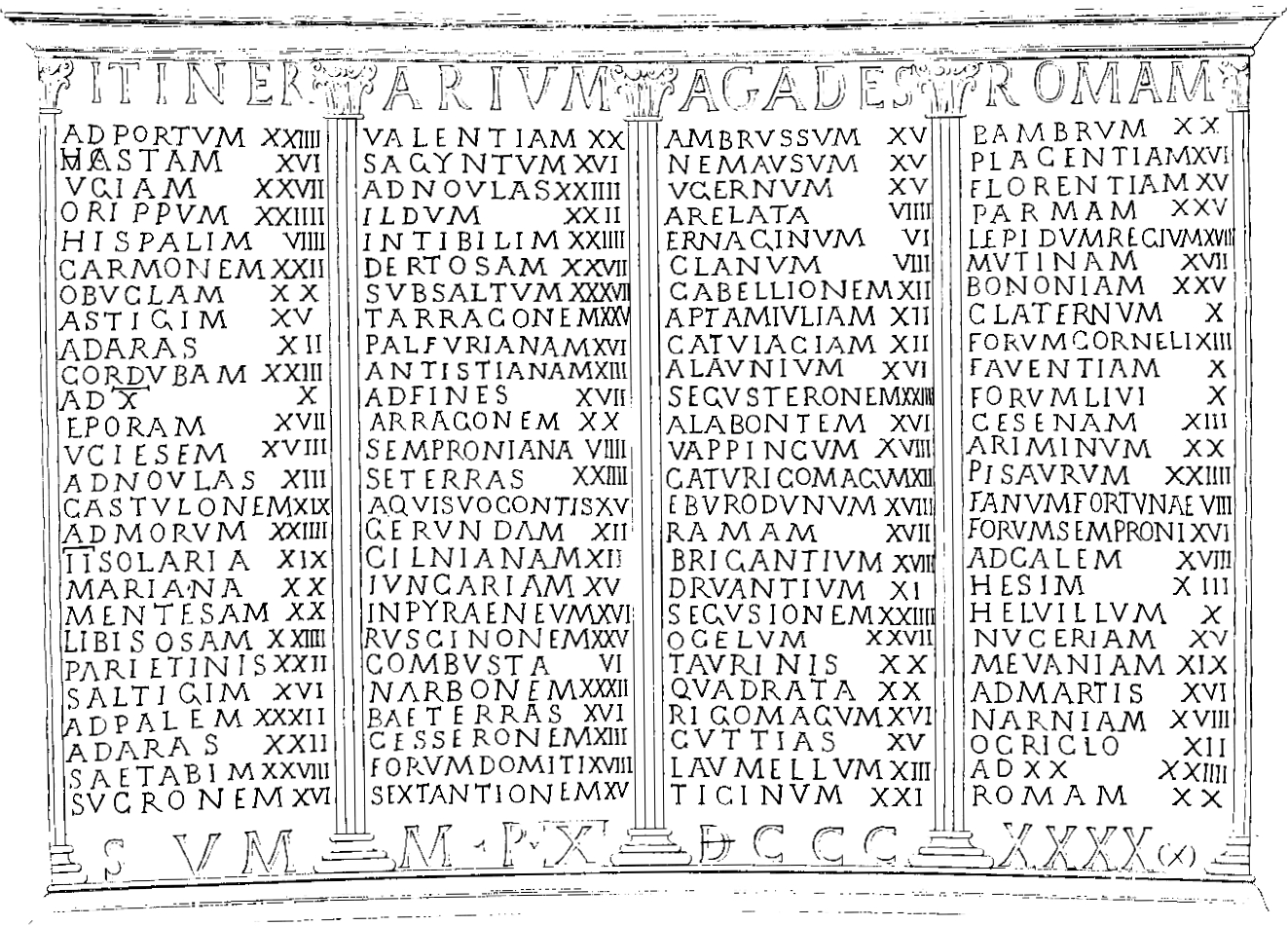 Table I from Stipe votive delle Acque Apollinari di Vicarello CIL XI, 3281